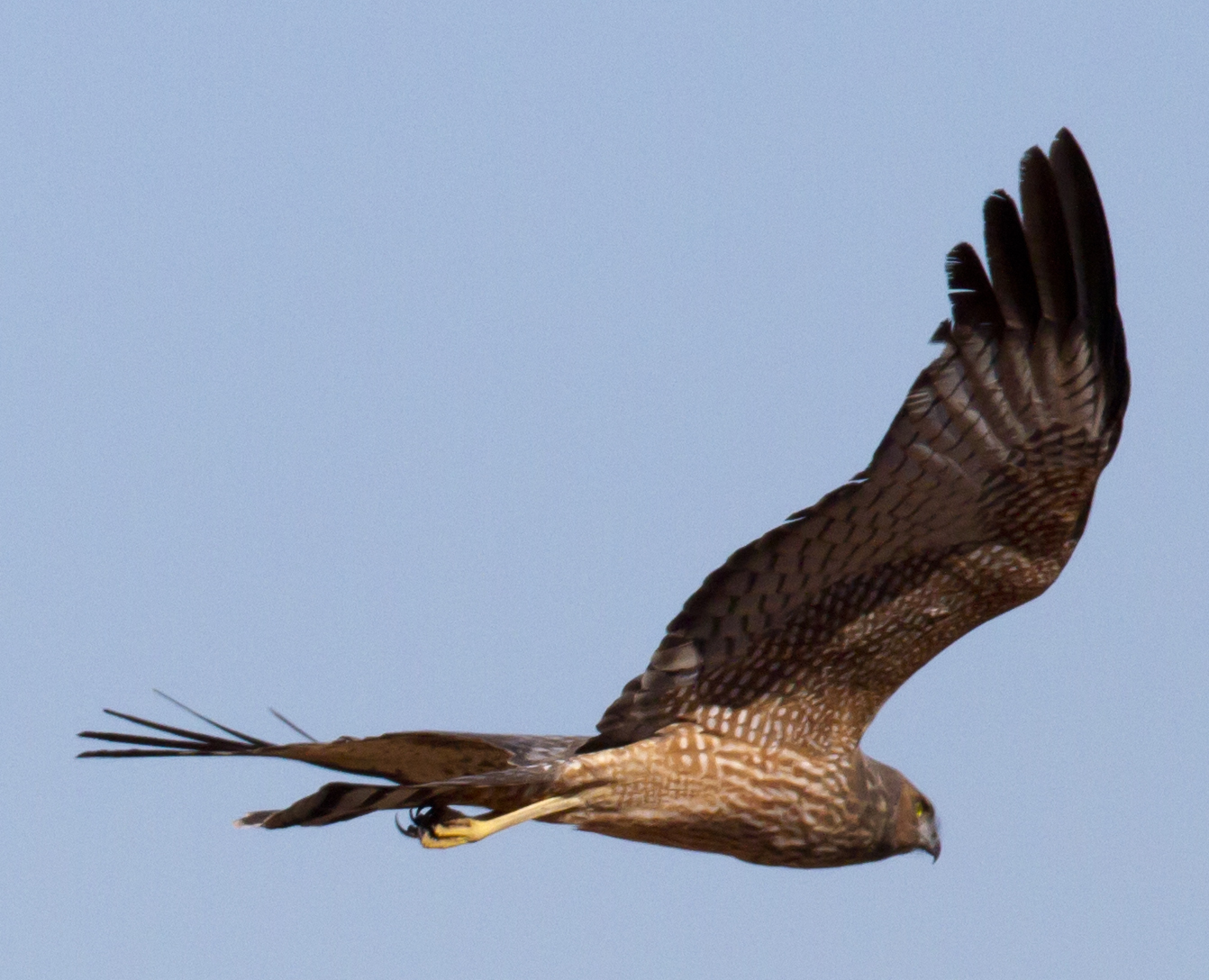 A subadult Spotted Harrier flying in Karratha, Pilbara, Western Australia, Australia.